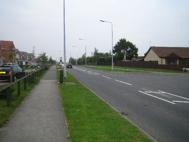 Birchwood Avenue. Birchwood Avenue is the main road through the largest housing estate in Lincoln. The estate was started in the early 1980's and is still being built today.